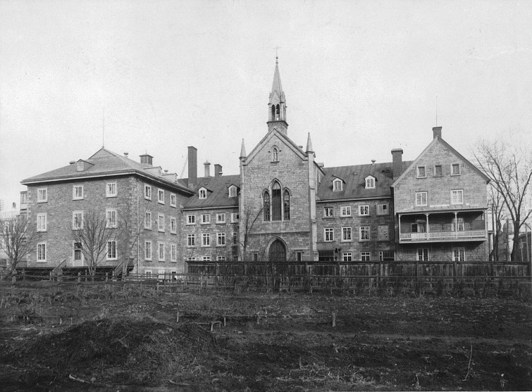 Photograph, Maison Mère et Chapelle des Soeurs de la Providence, St. Catherine Street, Montreal, QC, about 1890, Silver salts on paper mounted on card - Albumen process - 18 x 24 cm